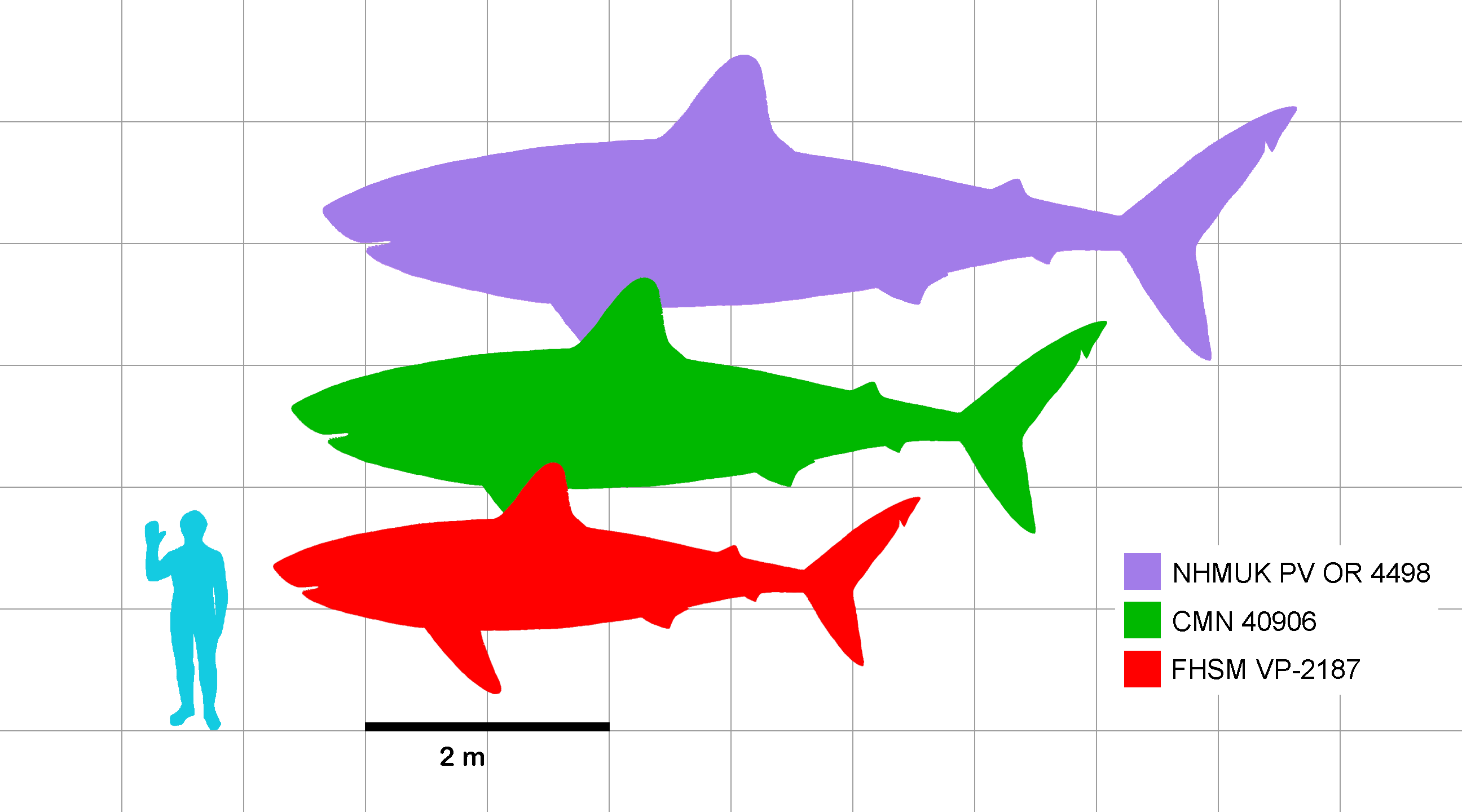 Scale diagram of Cretoxyrhina mantelli, showing the sizes of the most complete specimen (FHSM VP-2187), largest North American specimen (CMN 4096), and largest known specimen (NHMUK PV OR 4498)